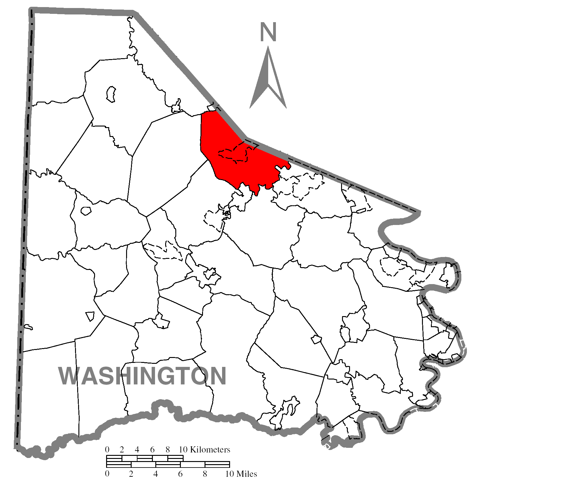 Map of Washington County higlighting Cecil Township.